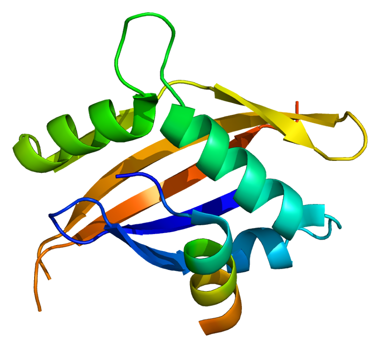 Structure of the NCOA1 protein. Based on PyMOL rendering of PDB 1oj5.